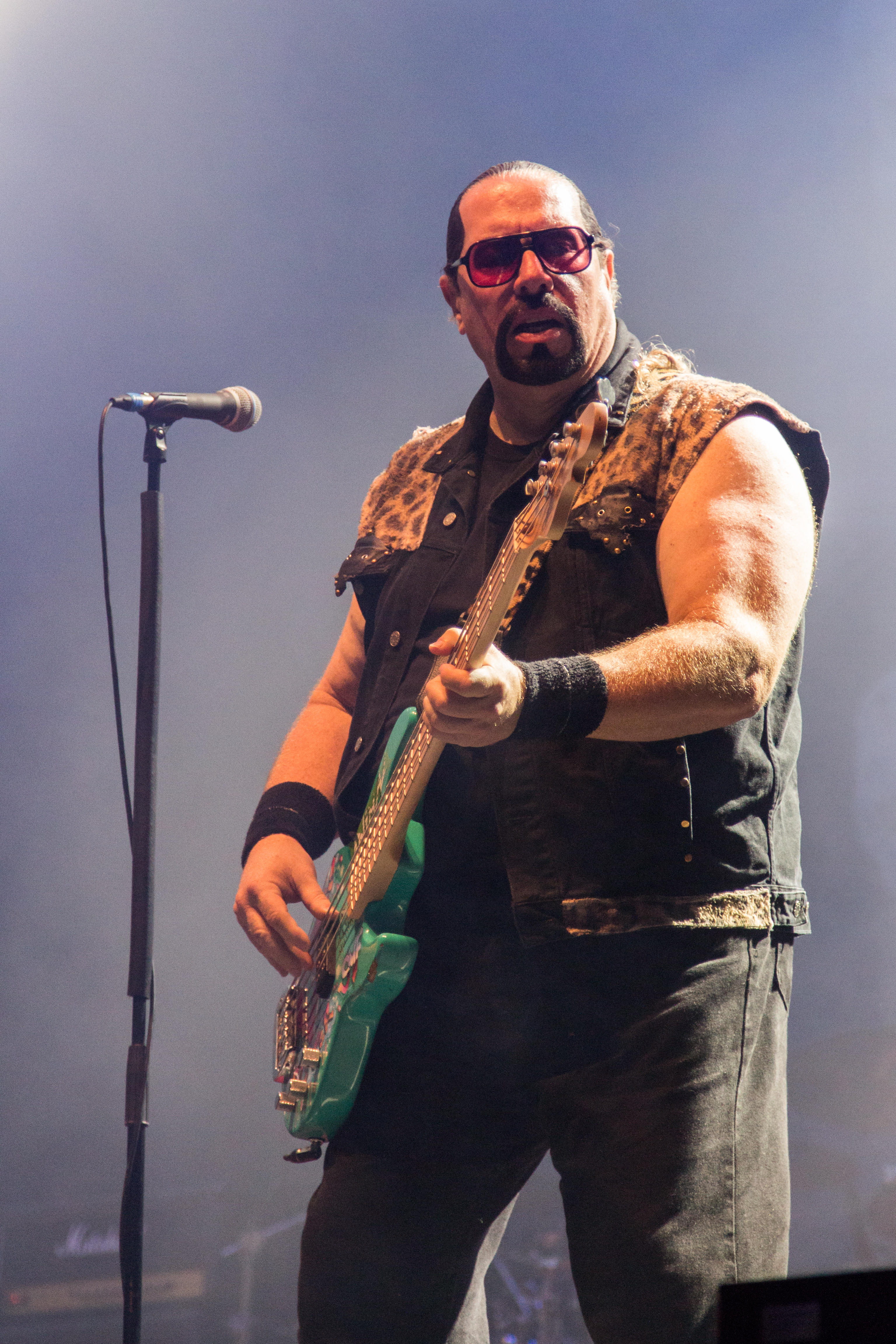 Mark „The Animal“ Mendoza from Twisted Sister at the See-Rock Festival 2014